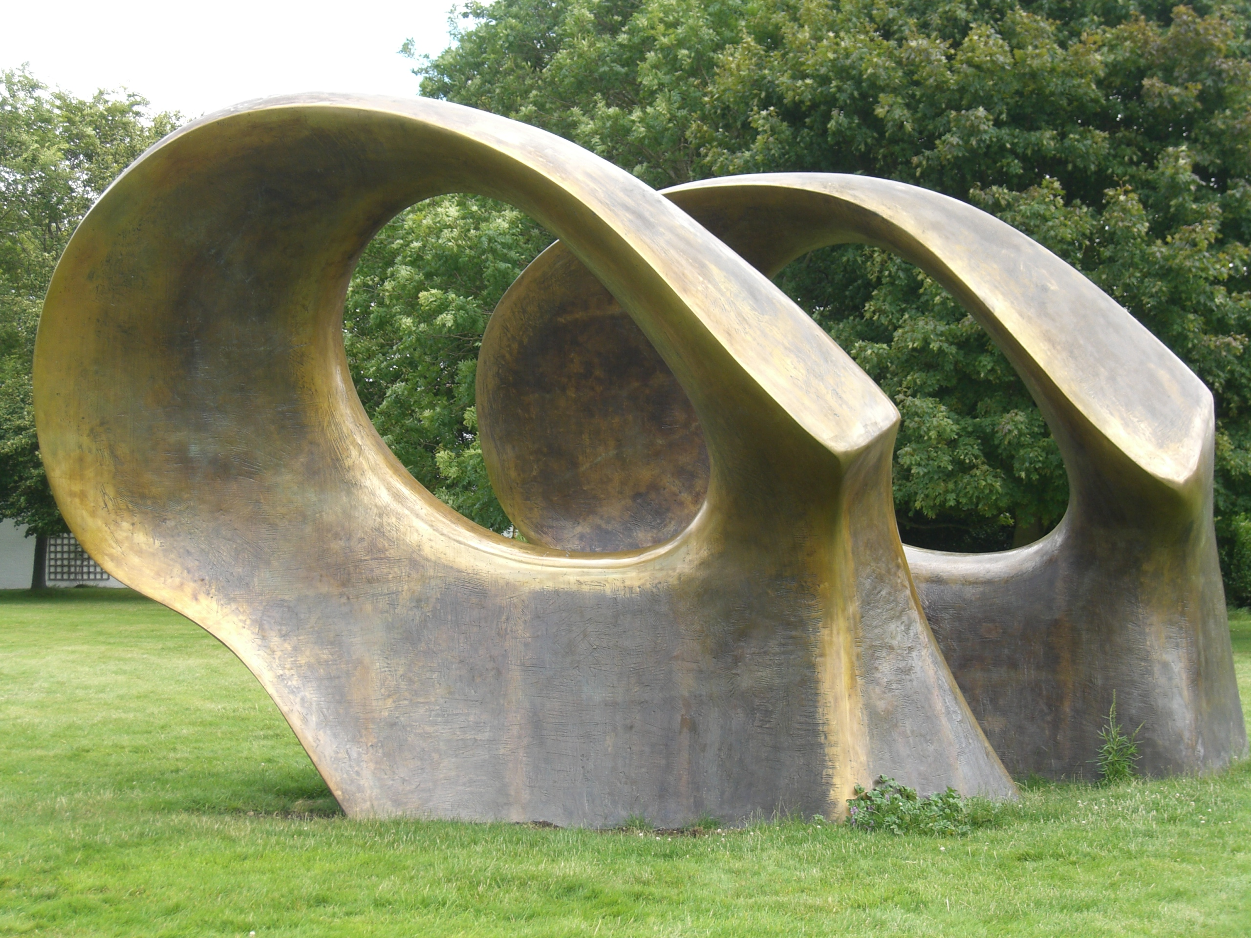 Double Oval (1968-70) by Henry Moore. Photo taken at the Henry Moore Foundation.